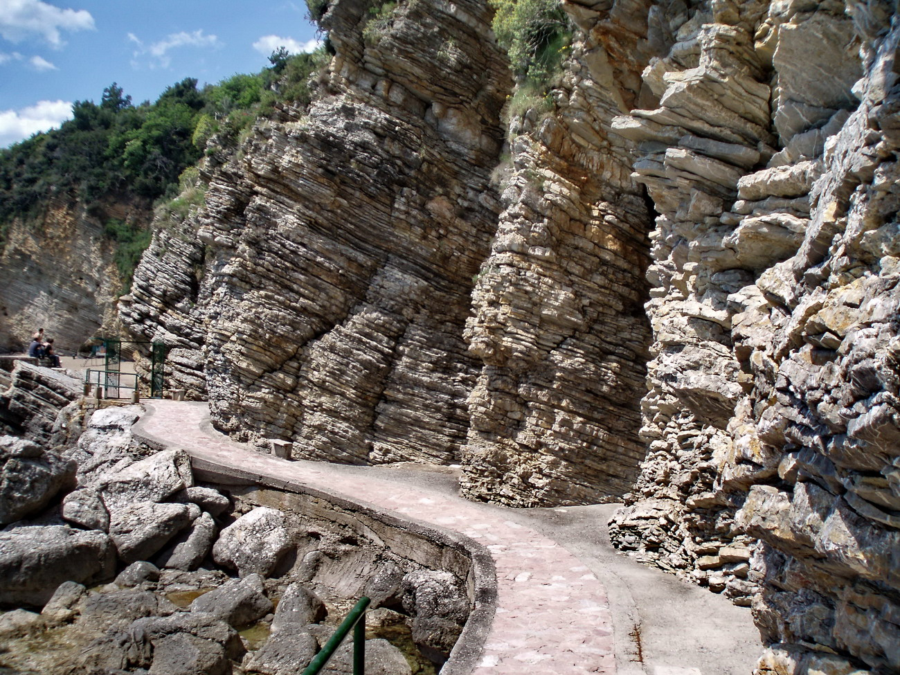 Mogren Beach. Footway.